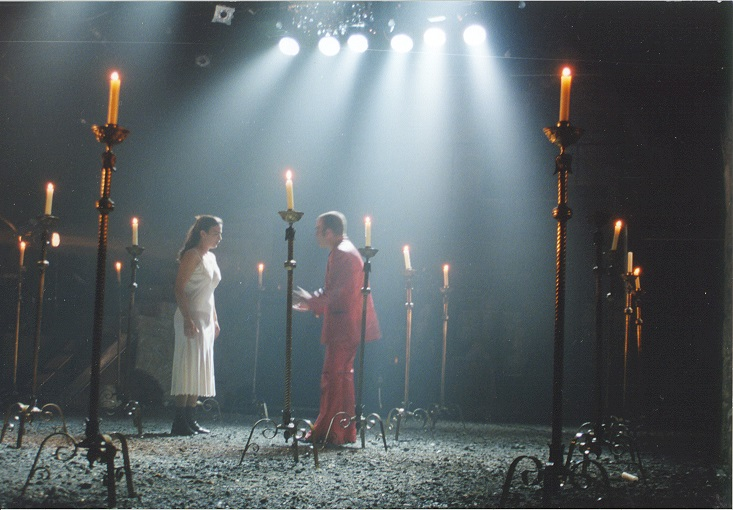 The play "Measure for Measure", directed by Gadi Roll, Scenery: Roni Toren, Lighting: Felice Ross, Music: Eldad Entertainment; at the Khan Theatre, Jerusalem, in 1998.